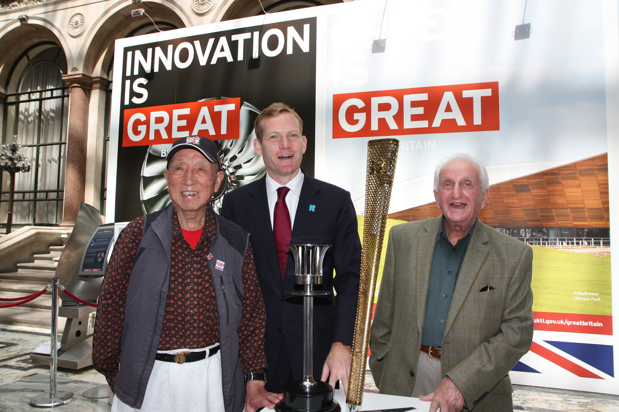 Foreign Office Minister Jeremy Browne with Wu Chengzhang and Lionel Price who competed in Basketball at the 1948 London Olympic Games, 6 August 2012. Read more